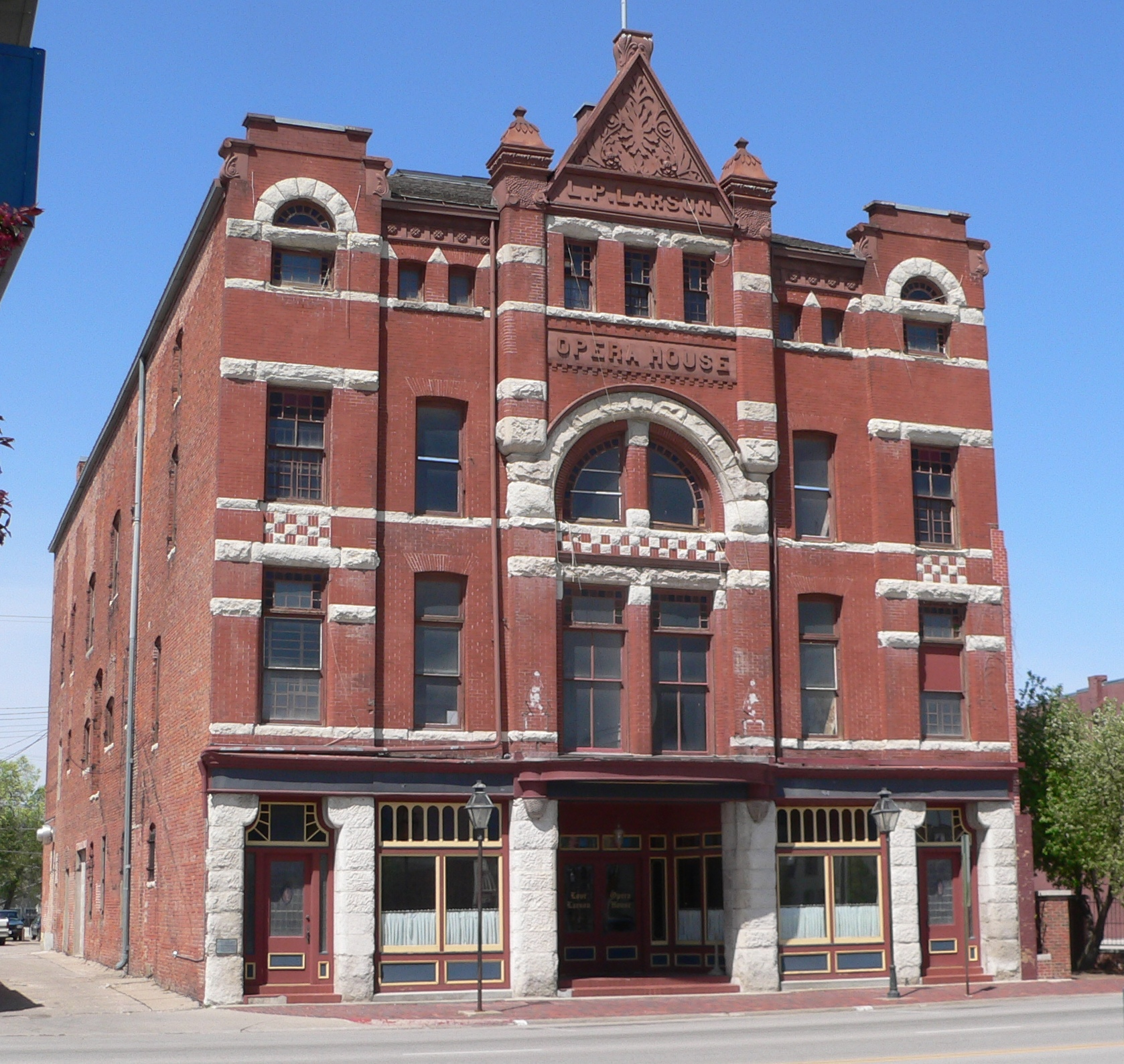 Love-Larson Opera House in Fremont, Nebraska; seen from the southeast. The building was constructed in 1888, and is listed in the National Register of Historic Places.